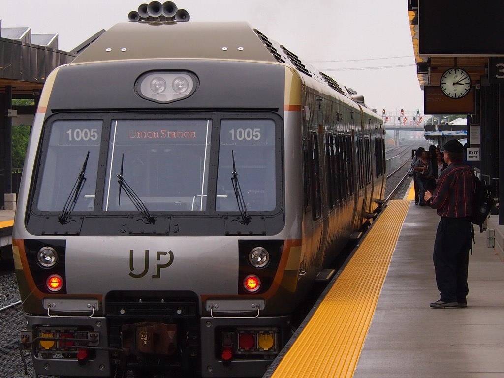 UP Express launch at Weston station